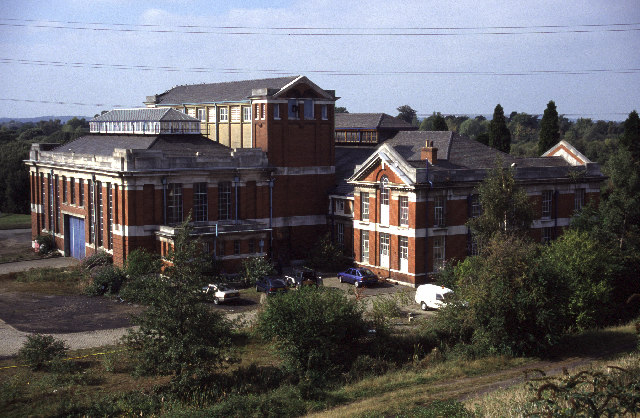 Littleton Pumping Station. Water works pumping station. Built for the Metropolitan Water Board, now Thames Water. Originally used four uniflow steam pumping engines of 1923. One is preserved. Pumps now motor driven. Photographer is on the embankment of the Queen Mary Reservoir.